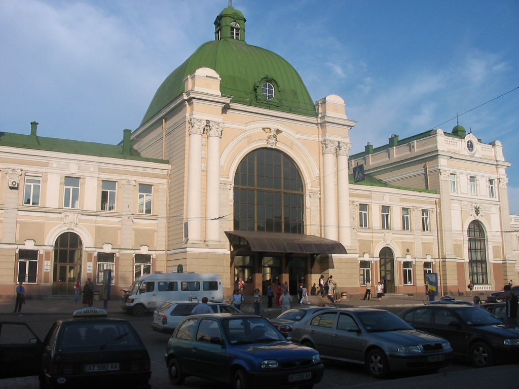 Railway Station in Ivano-Frankivsk, western Ukraine